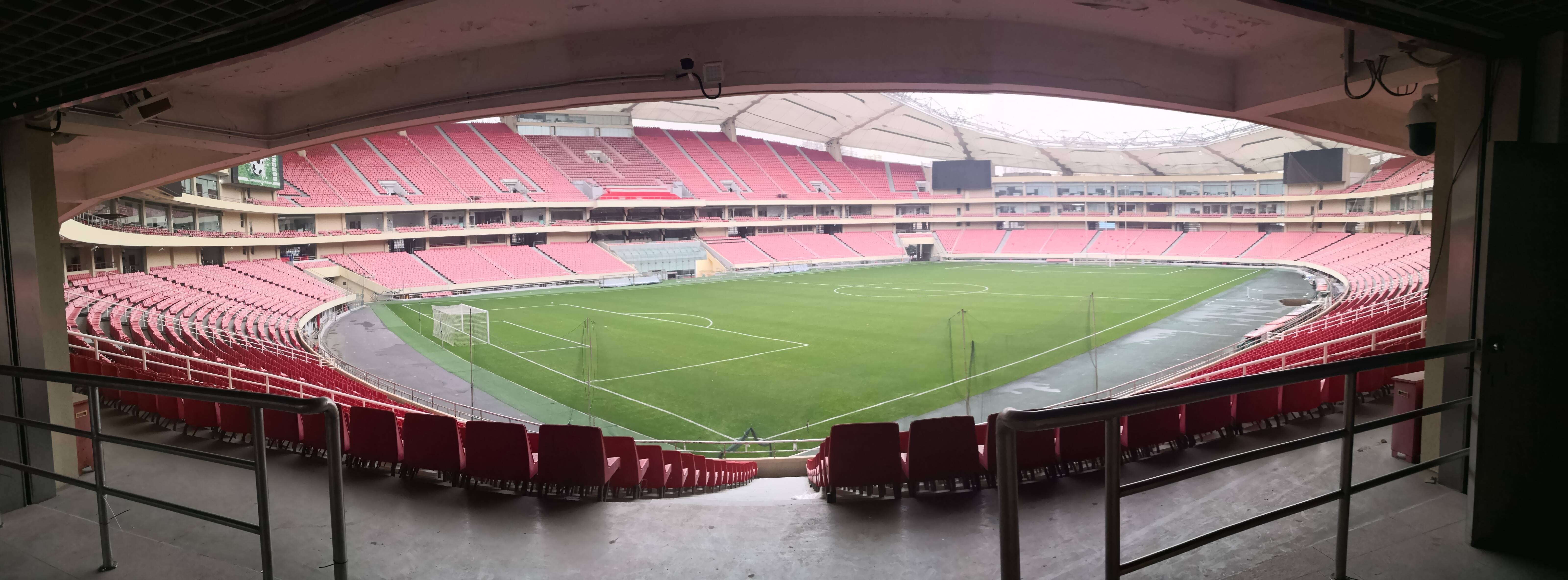 Panoramic view of the Hongkou Football Stadium